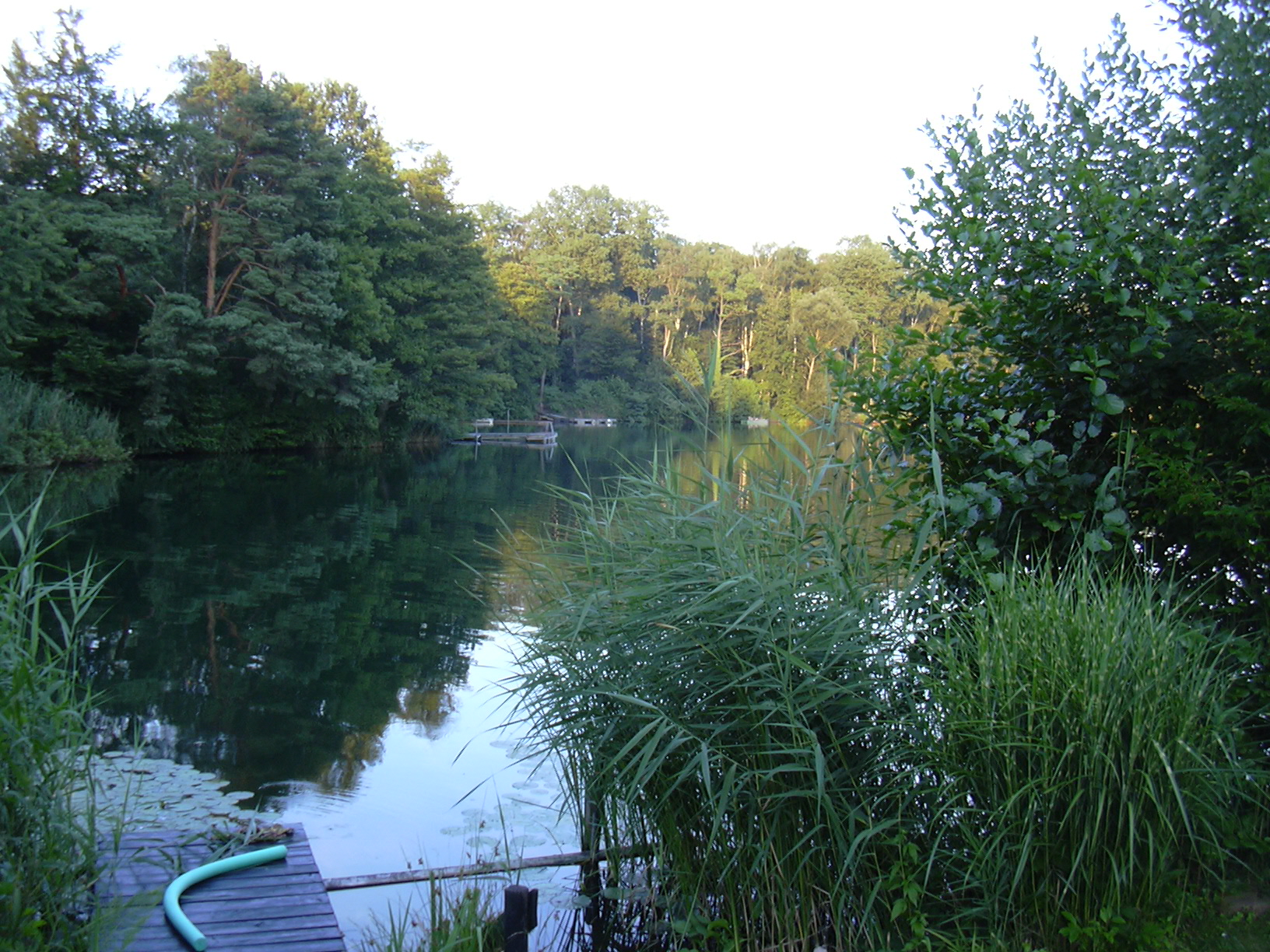 Kahler See, holiday home area, near Kahl/Main, Bavaria/Germany